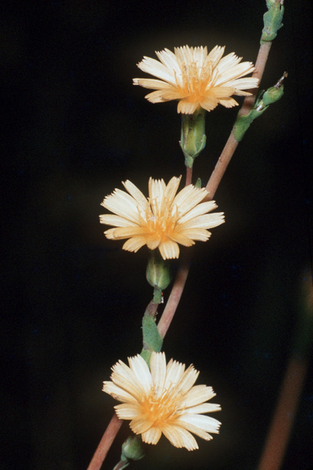 Lactuca serriola L. - prickly lettuce